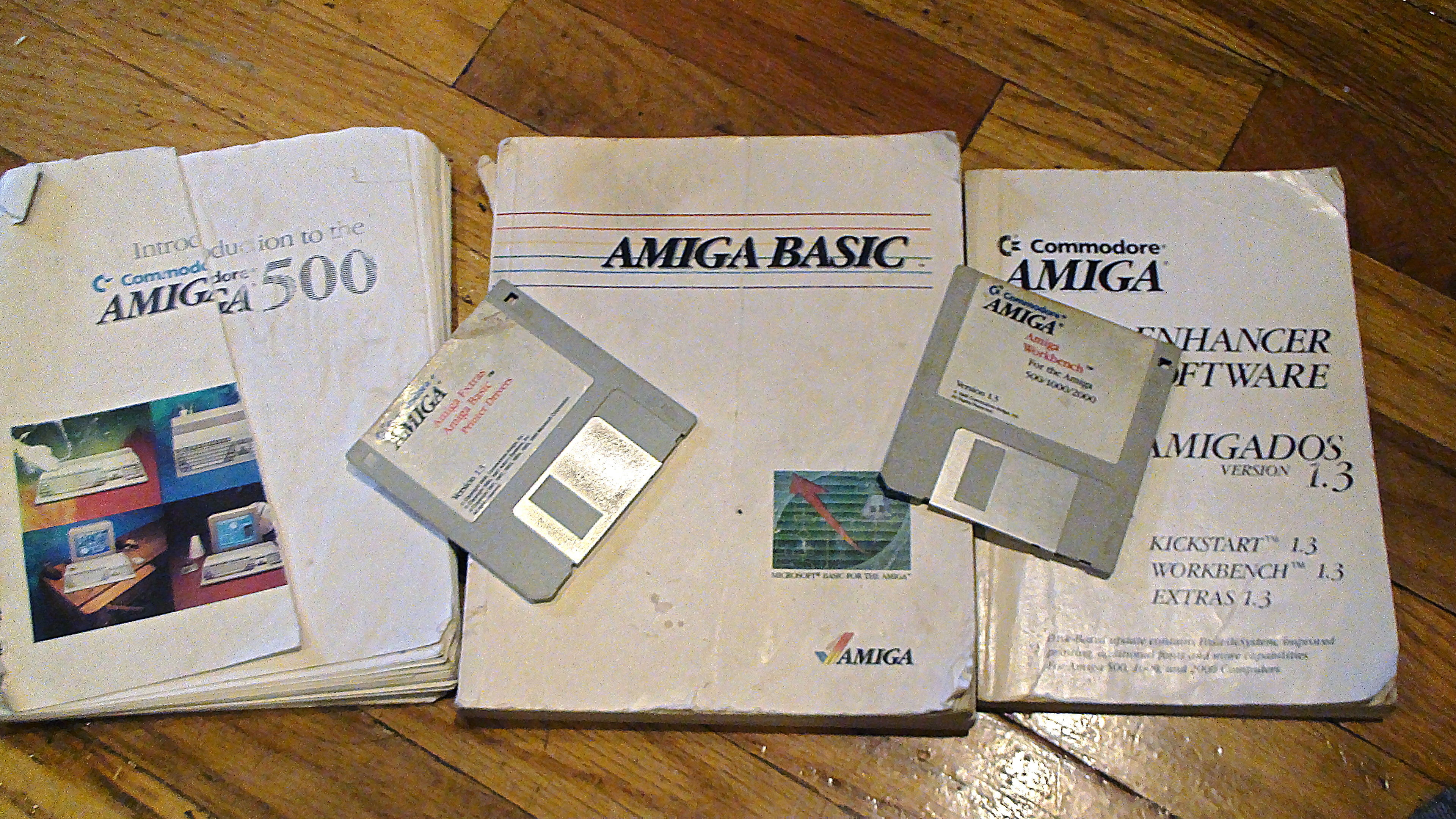 Photo of the manuals for the Amiga 500, plus Workbench 1.3 disks.